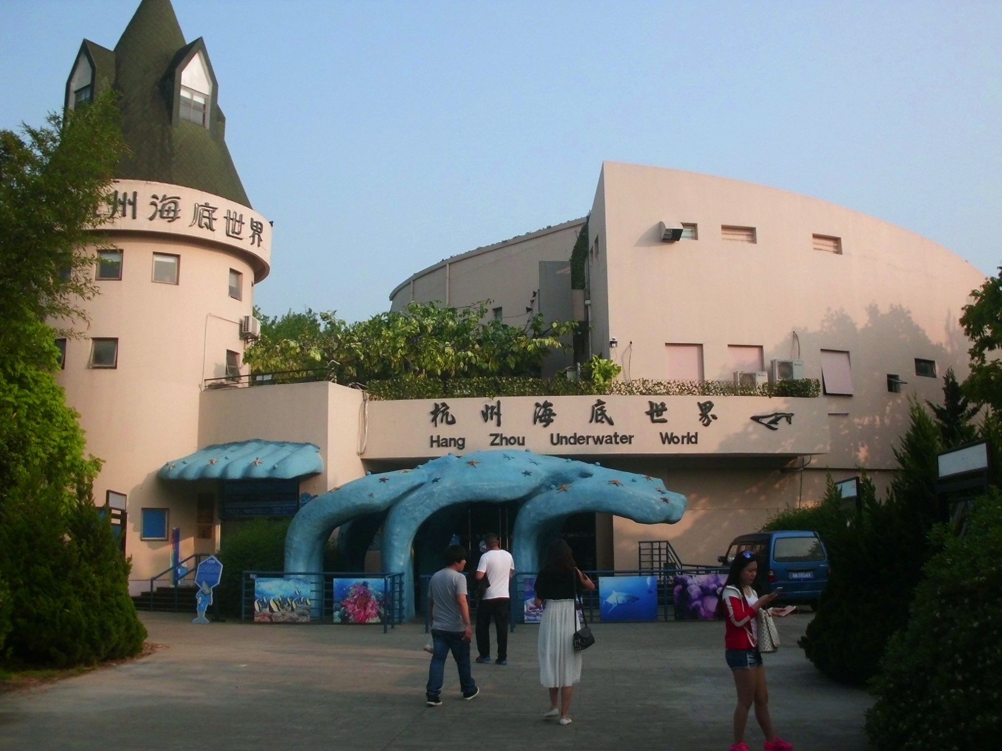 Hangzhou Underwater World